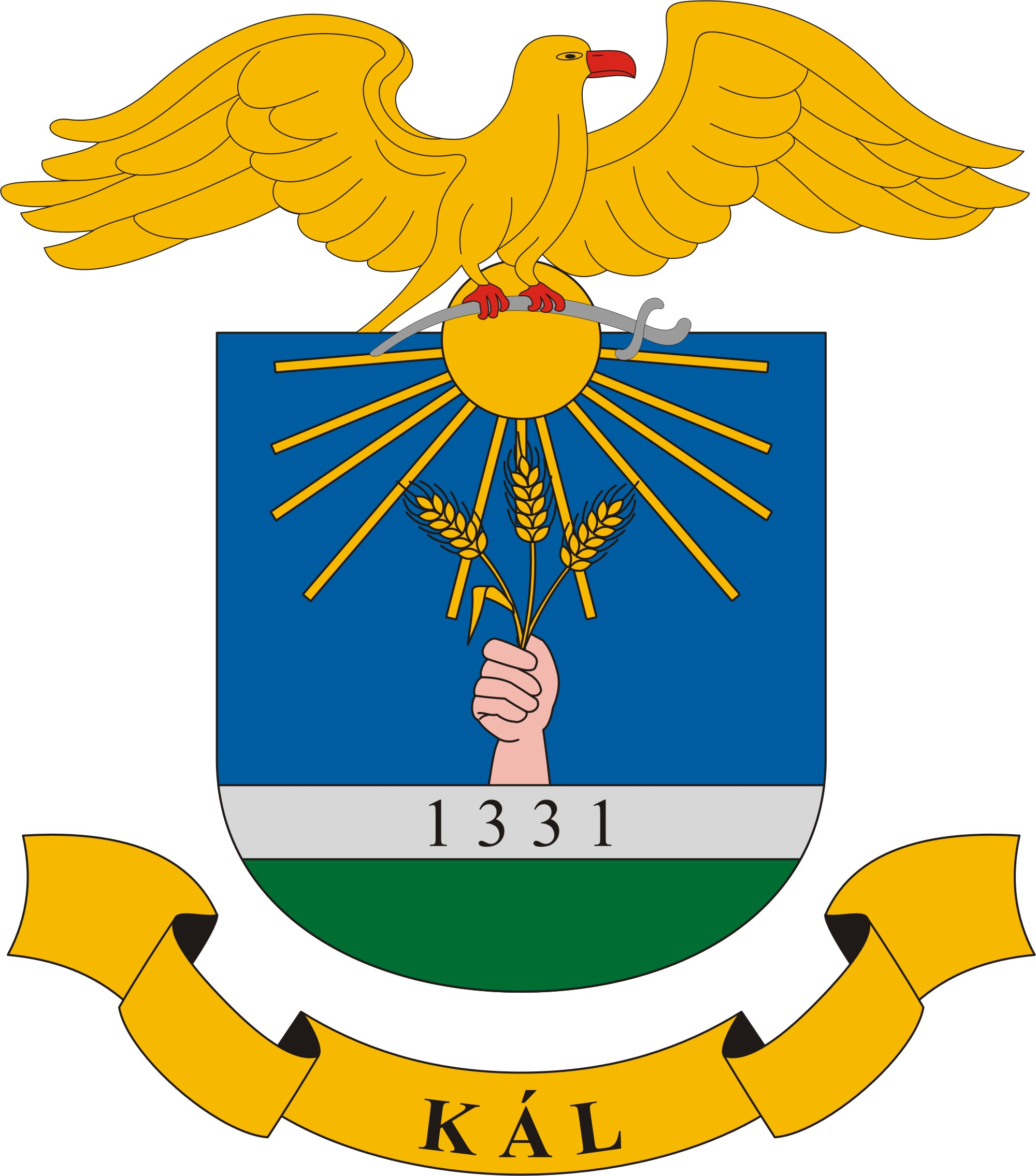 Coat of arms of Kál, Hungary